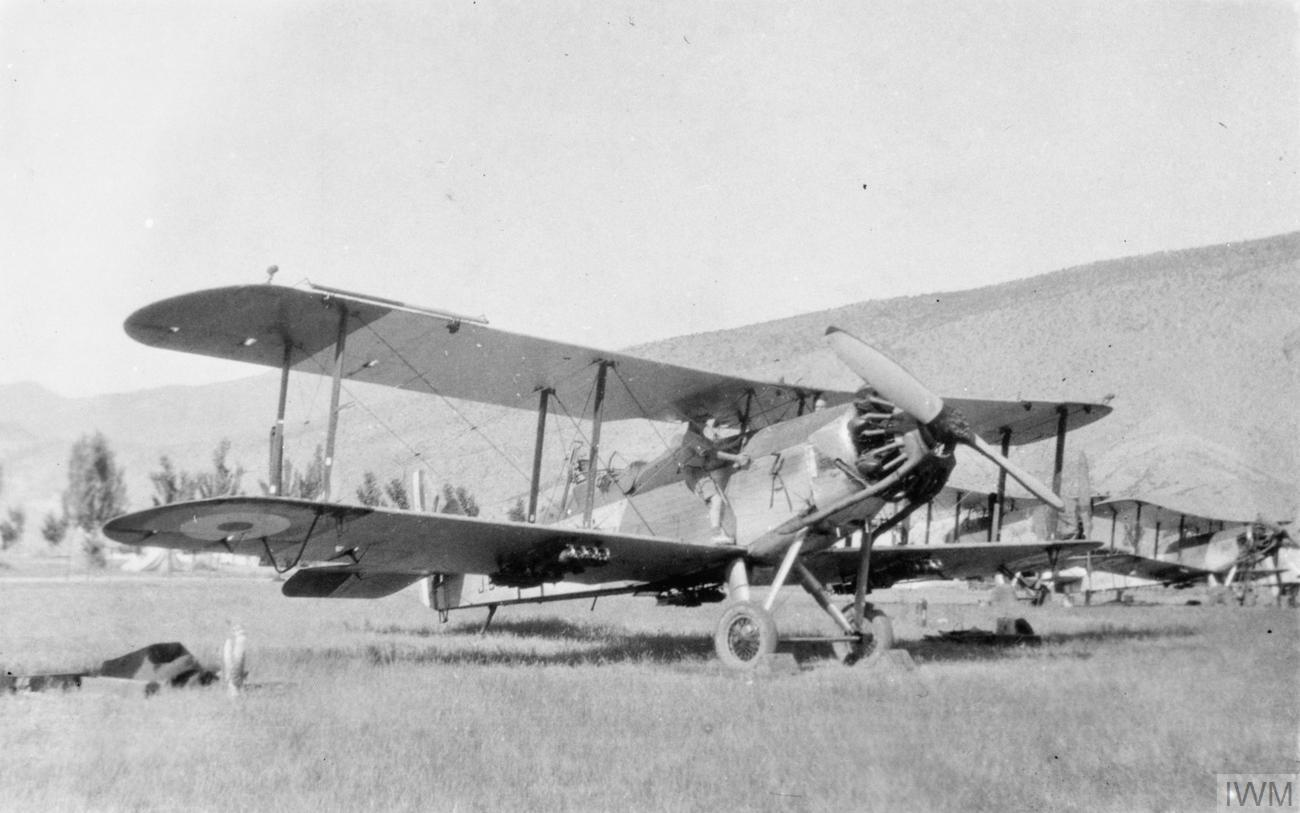 Westland Wapiti Mark IIA, J9404, flown by Flt Lt Gerard Combe when commanding 'A' Flight, No. 30 (B) Squadron, on the ground at Diana in Iraq.